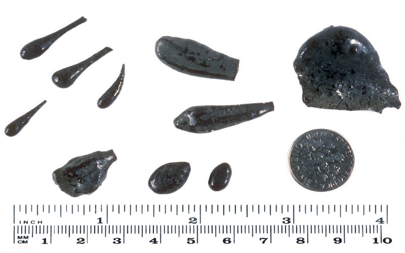 Assorted shapes of Pele's tears collected a few kilometers downwind from Mauna Ulu from along the Hilina Pali Road on Kilauea Volcano, Hawai`i. U.S. dime for scale in lower right. When pieces of magma shoot up into the air during a volcano eruption, they solidy on falling. Some form these shapes, which are called Pele's hair or tear because Pele is the goddess of fire in Hawaiian mythology. A Pele tear is usually connected to a strand of hair.